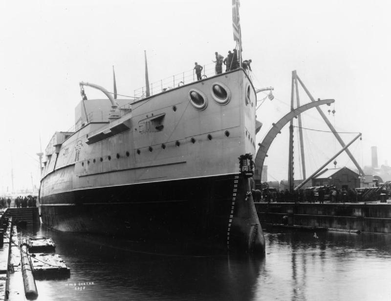 Majestic Class Battleships- Hms Caesar HMS CAESAR fitting out at Portsmouth Dockyard, 1897.